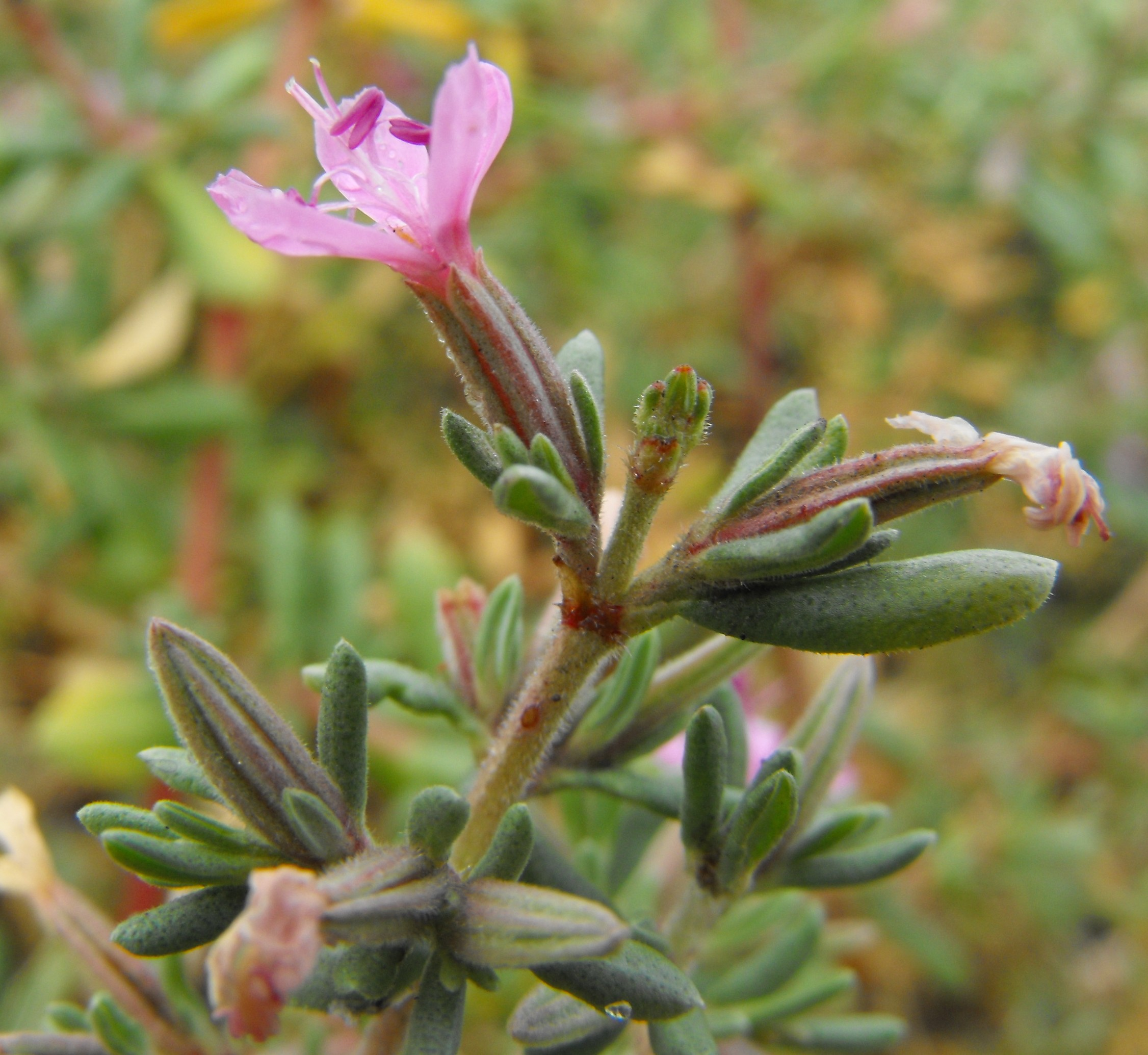 Frankenia salina at San Elijo Lagoon, San Diego County, California, USA.